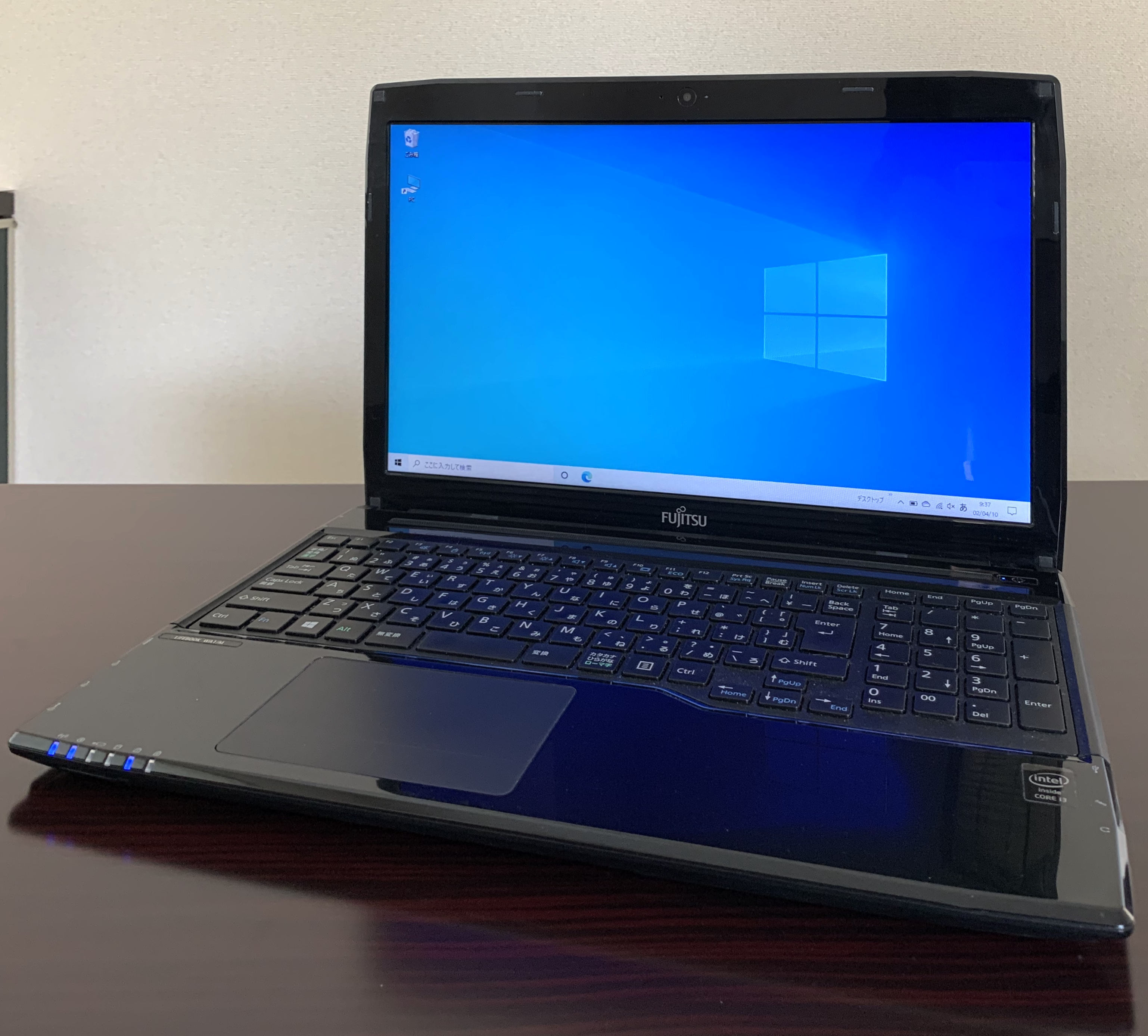 Fujitsu Lifebook WA1/M Custom made models